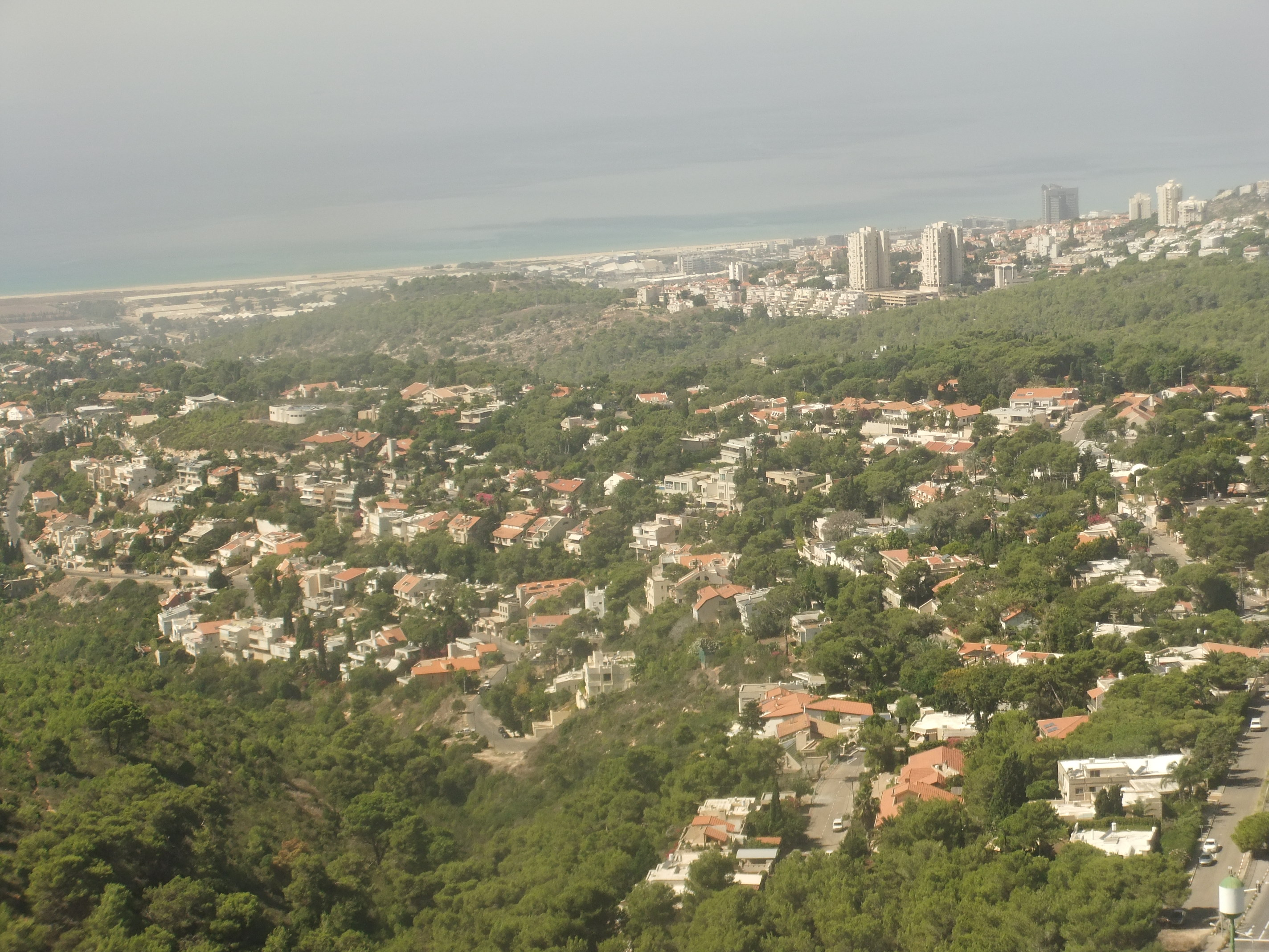 Denya, Haifa viewed from Eshkol tower